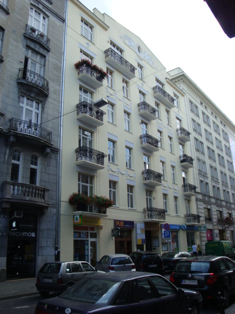 Francisk Hodur Polish Catholic Church Center in Warsaw